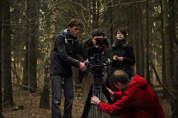 Арцём Лобач (злева) падчас кіназдымкаў.